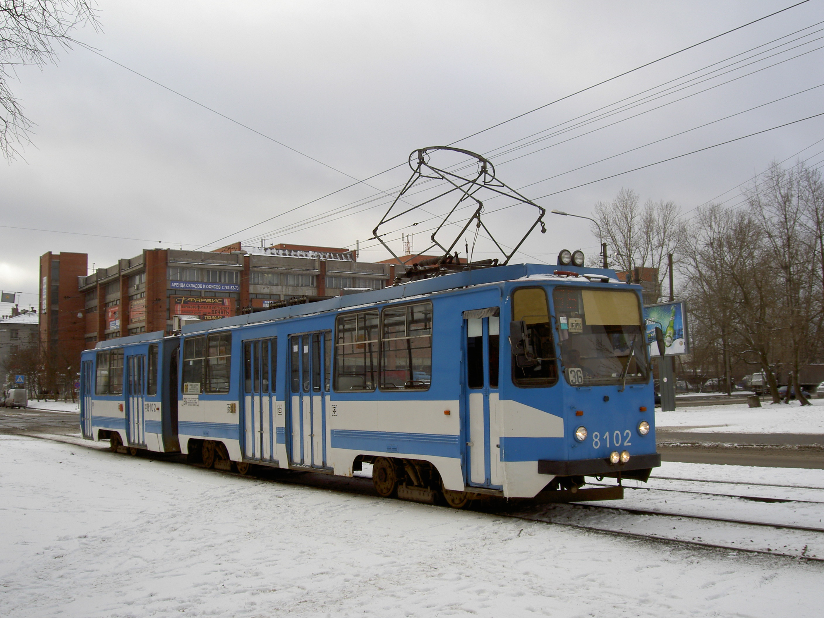 LVS-97 tram at Kronshtadskaya street in Saint Petersburg